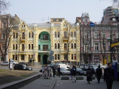 Volodymyrska Street in Kiev viewed through Zolotovorits'ky Passage.